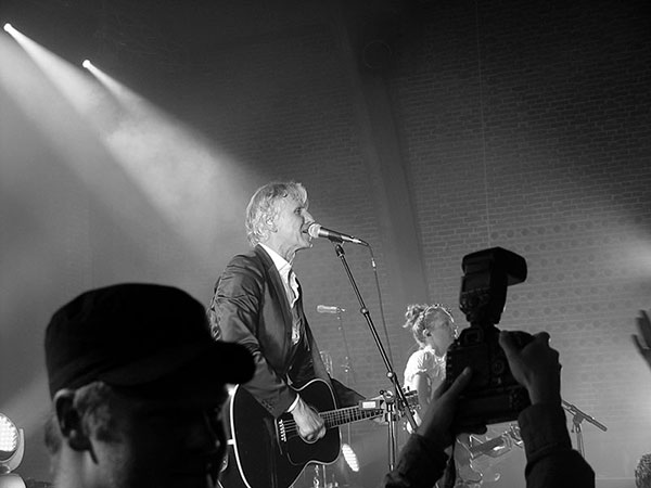 Steffen Brandt